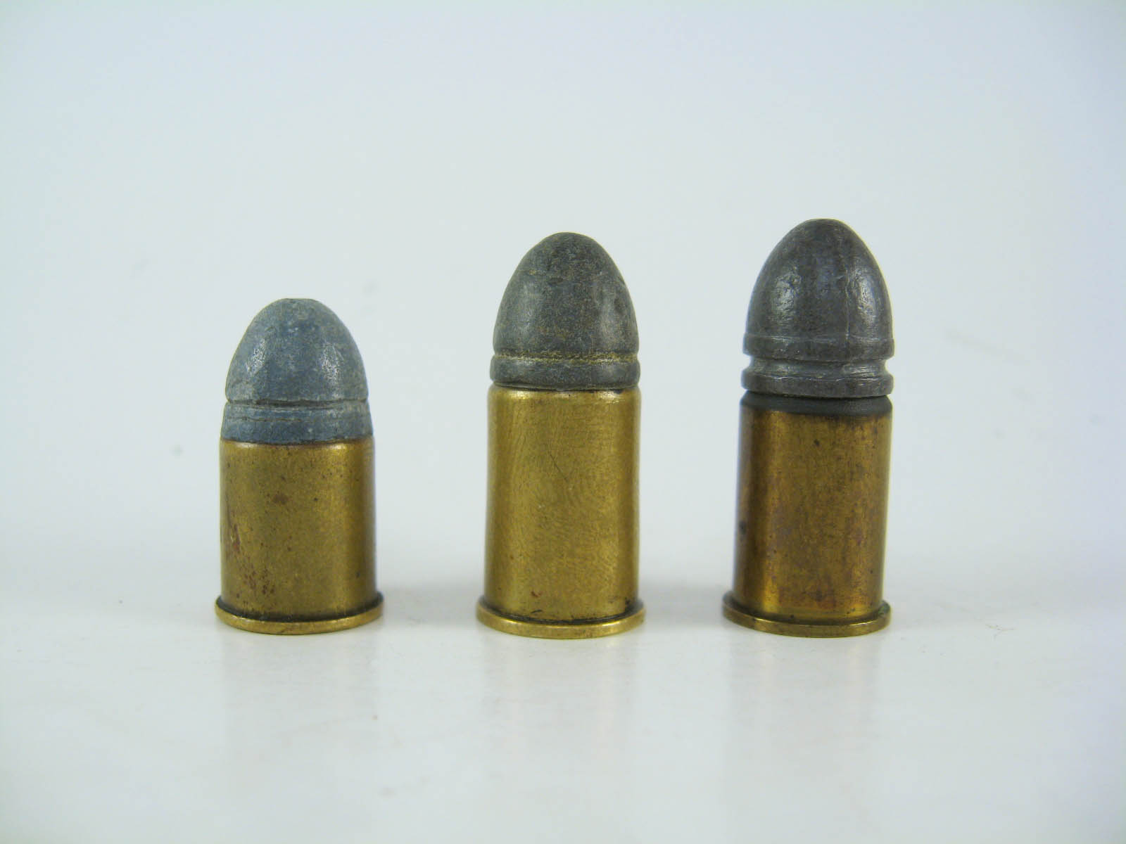 .44 Bulldog (Peters Cartridge Co), .44 Webley (Union Metallic Cartridge Co), .442 Revolver/Webley/RIC (Eley Brothers Ltd)